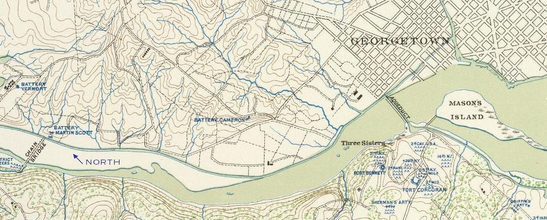 Map showing location of Battery Cameron, Battery Martin Scott, and Battery Vermont relative to the Chain Bridge and Aqueduct Bridge. Note the absence of Battery Kemble to the north. This image is public domain, due to its age. Full title: Defenses of Washington. Map of the ground of occupation and defense of the Division of the U.S. Army in Virginia in command of Brig. Gen. Irvin McDowell. U.S. Coast Survey, A.D. Bache, Supdt. Topographical survey by the party in charge of H.L. Whiting, Asst., U.S.C.S. Field work executed during parts of June and July 1861, by F.W. Dorr and C. Rockwell U.S.C.S. (with) Sketch of Paducah, Ky. and vicinity by Captain John Rziha, 19th U.S. Infantry. (with) Sketch of the battle-field of Logan's Cross-roads, Ky. U.S. forces under the command of Brig. Gen. George H. Thomas. Forces of the enemy commanded by General G.B. Crittenden, Jan. 19, 1862. Drawn under the direction of Capt. Michler ... copied by A. Kilp. Sketch of the enemy's fortified position at and opposite Mill Springs, Ky., to which he retreated after his defeat at Logan's Cross-roads by the U.S. forces under Brig. Gen. George H. Thomas, Jan. 19, 1862 ... compiled ... by Edward Ruger ... drawn by A. Kilp ... Julius Bien & Co., Lith., N.Y. (1891-1895)